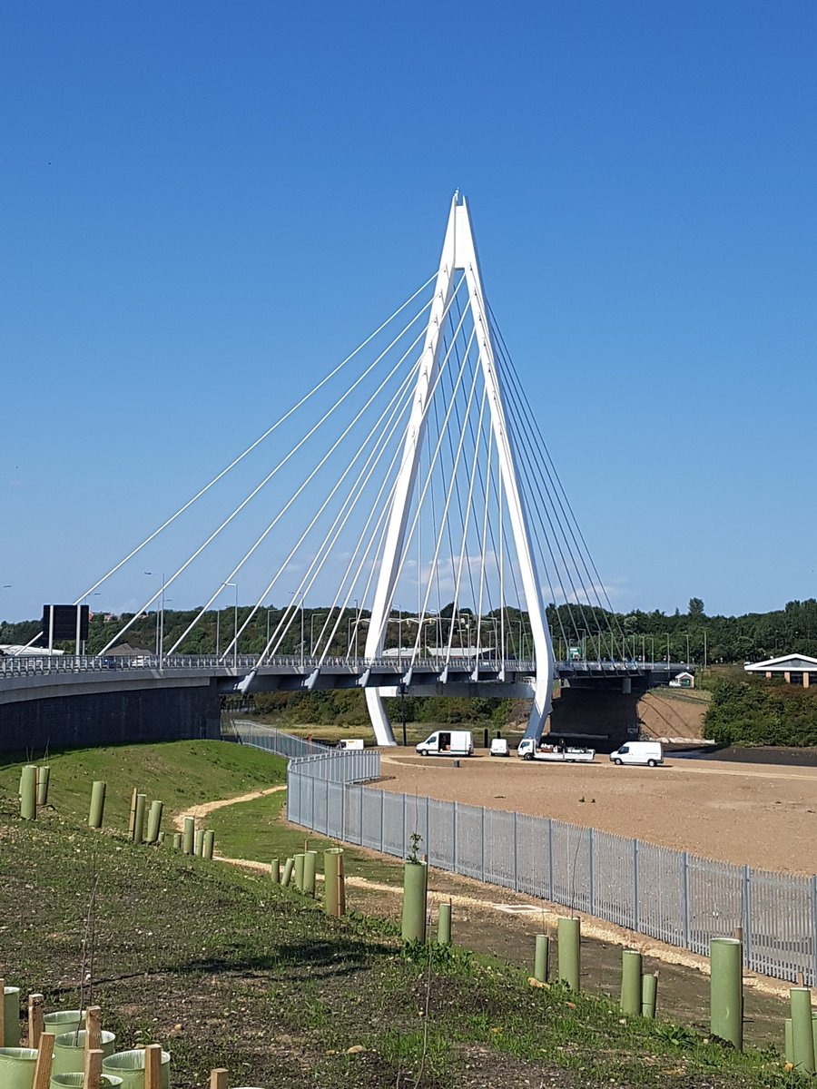 The Northern Spire Bridge after completion in 2018.